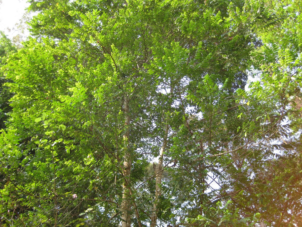 Photographed at the Queen Sirikit Botanic Garden (Chiang Mai Province, Thailand) in March